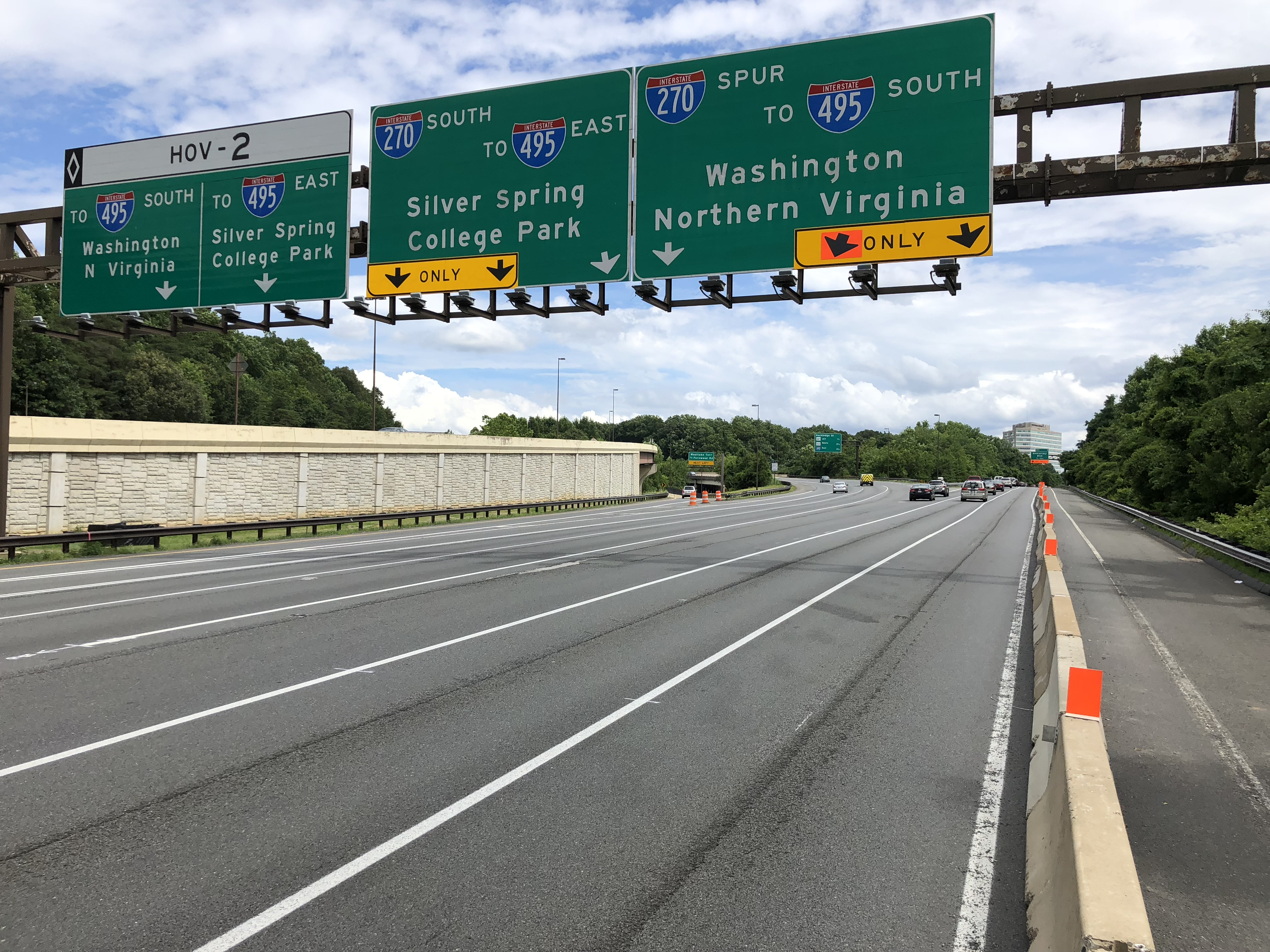 View south along Interstate 270 (Washington National Pike) at the exit for Interstate 270 Spur (TO Interstate 495 SOUTH, Washington, Northern Virginia) on the edge of Potomac and North Bethesda in Montgomery County, Maryland